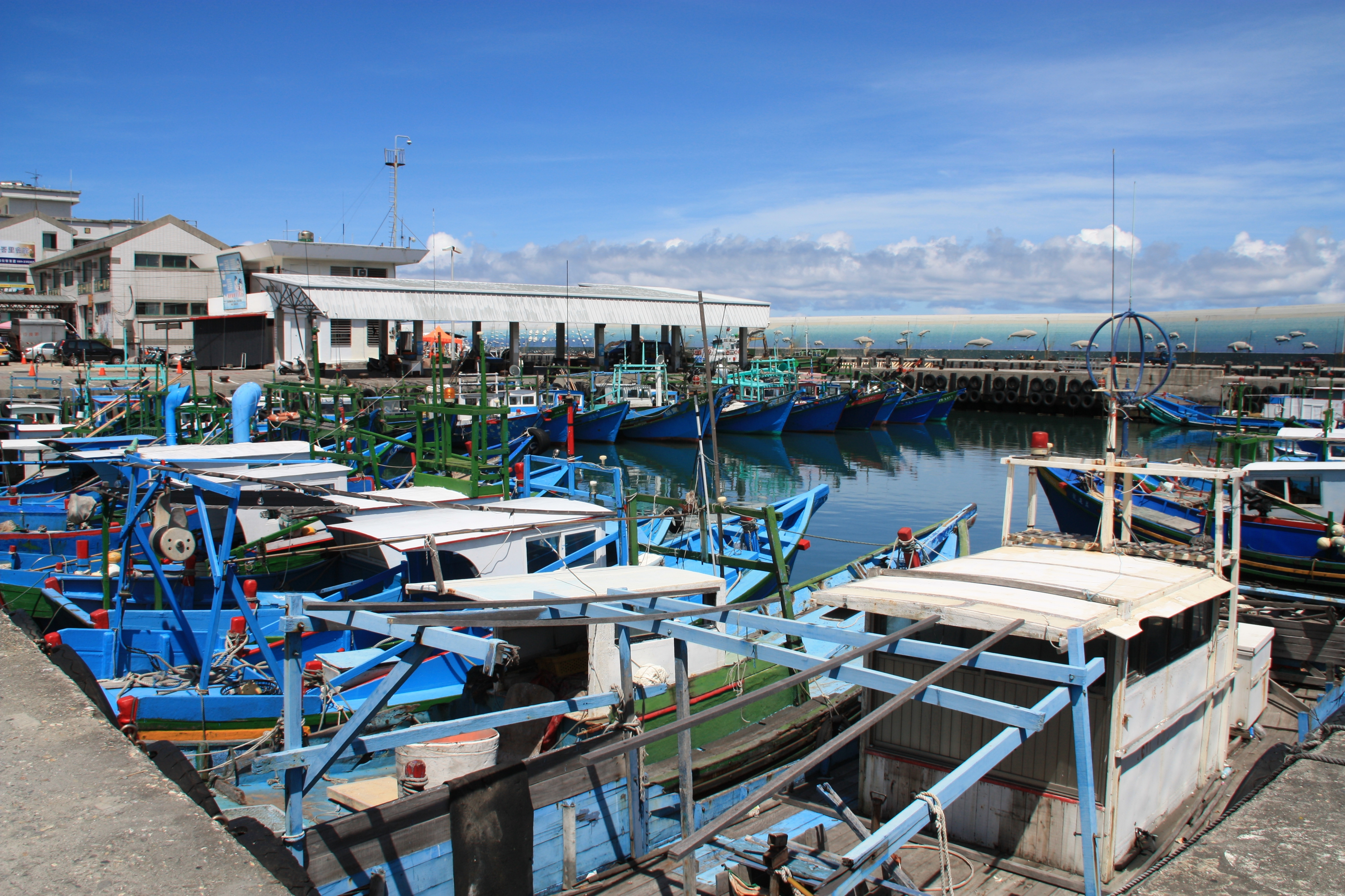 Taitung County Taitung City FùGāng fishing port Starting point for boat trips to Lǜ Dǎo (Green Island)